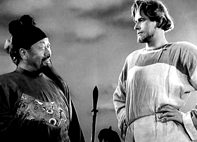 Prince Alexander Nevsky (Nikolay Cherkasov, right) speaking to the Mongol envoy (Liang Qung, left). Still from the film Alexander Nevsky by Sergey Eisenstein.